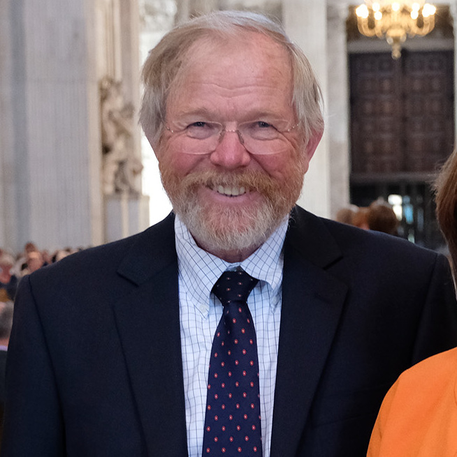 L to R: Neil MacGregor, Bill Bryson, Claire Walker, Huw Edwards